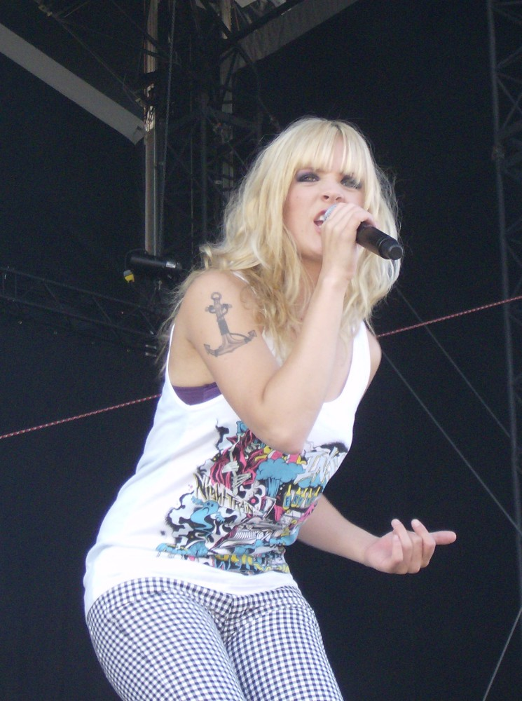 "Dennis", Dutch singer, with her band, July 7, 2008